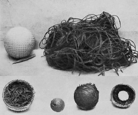 The Haskell Ball. Top: The Rubber Filling from a Single Ball. Bottom: The Anatomy of the Rubber-Filled Ball.